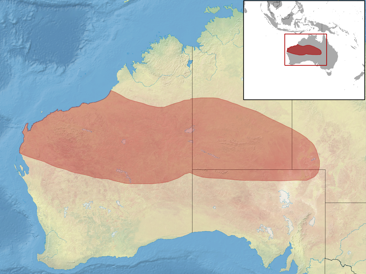 geographic distribution of Ctenotus helenae